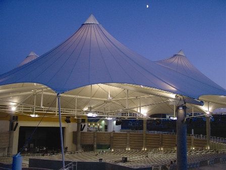 Henderson Pavilion at night